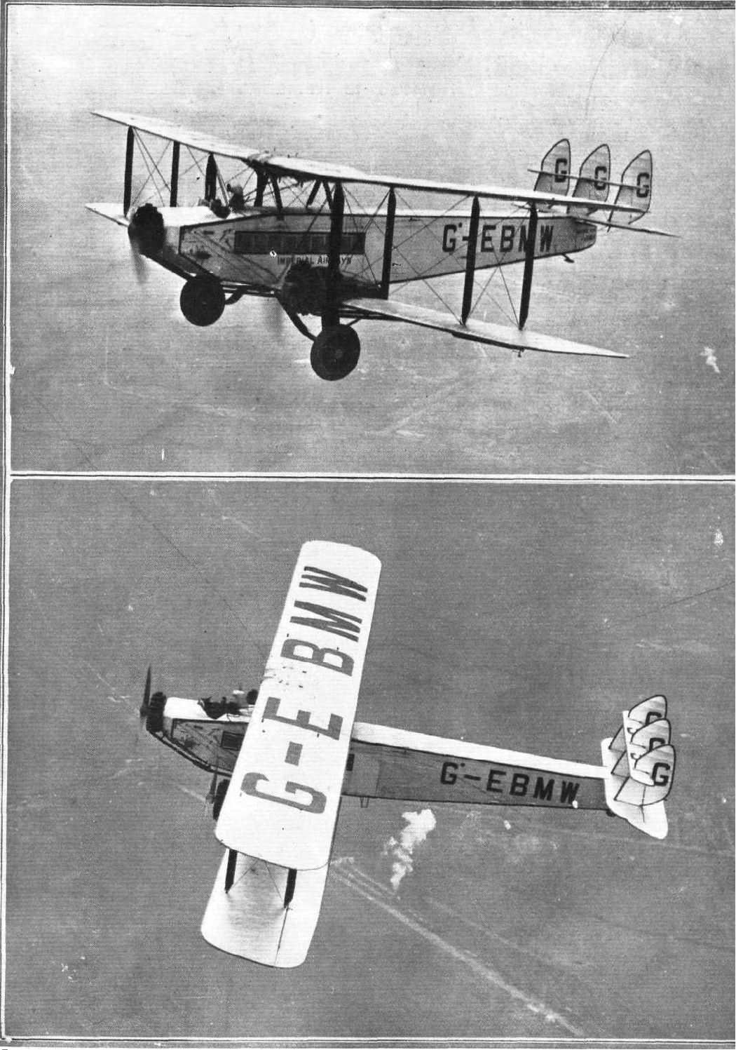 Imperial Airways De Havilland DH.66 Hercules City of Cairo G-EBMW used to carry mail and passengers on the Cairo–Baghdad Air Route from 1926